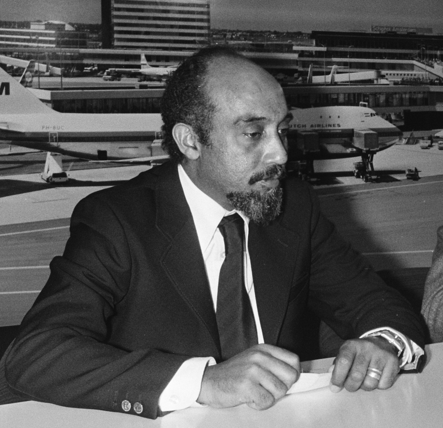 Jan Pronk, Dutch minister for development politics, welcomes Marcelino dos Santos, vice-president of the Mozambican FRELIMO, at Schiphol airport